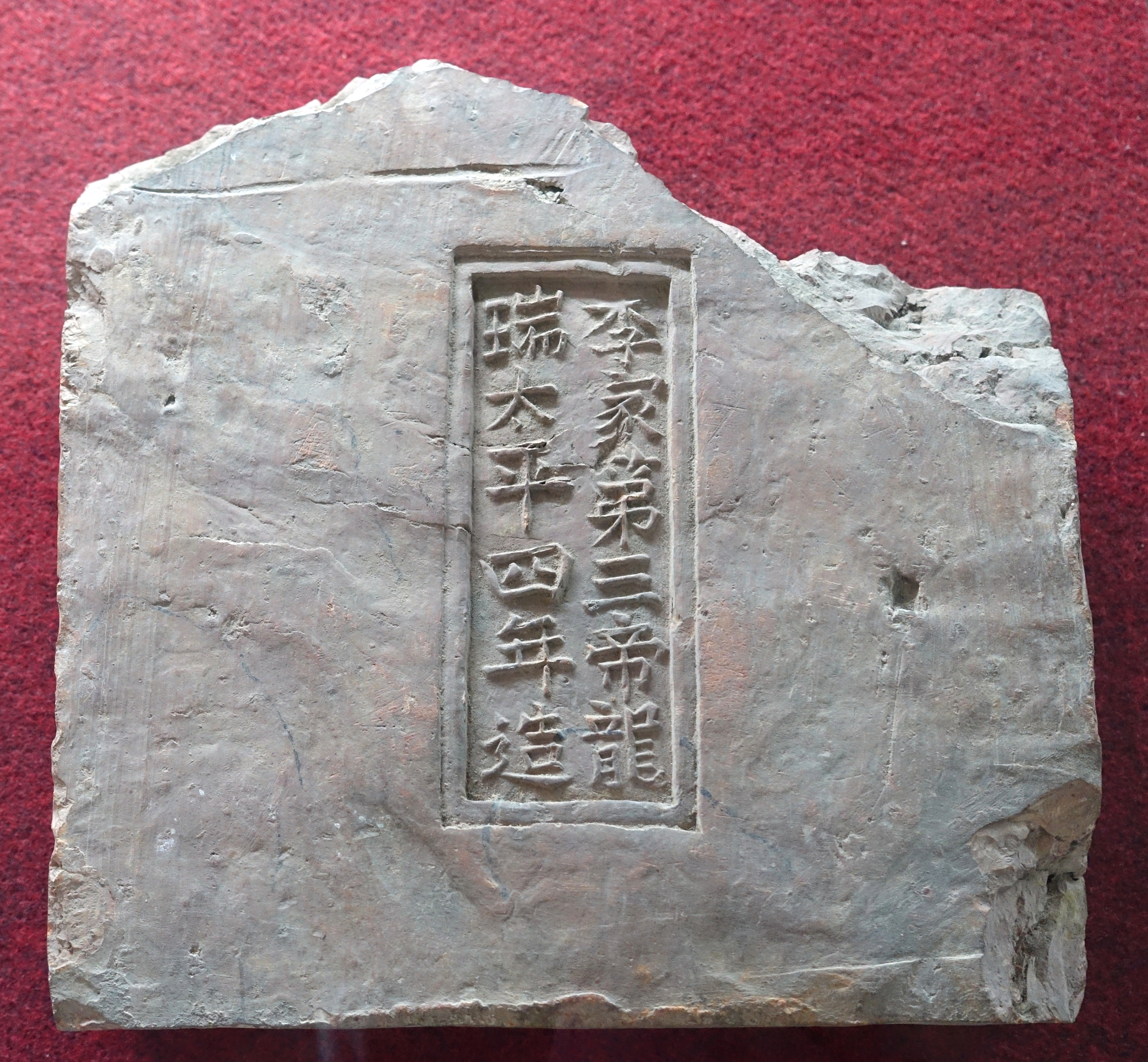 Exhibit in the Museum of Vietnamese History, Ho Chi Minh City, Vietnam. This work is old enough so that it is in the public domain.